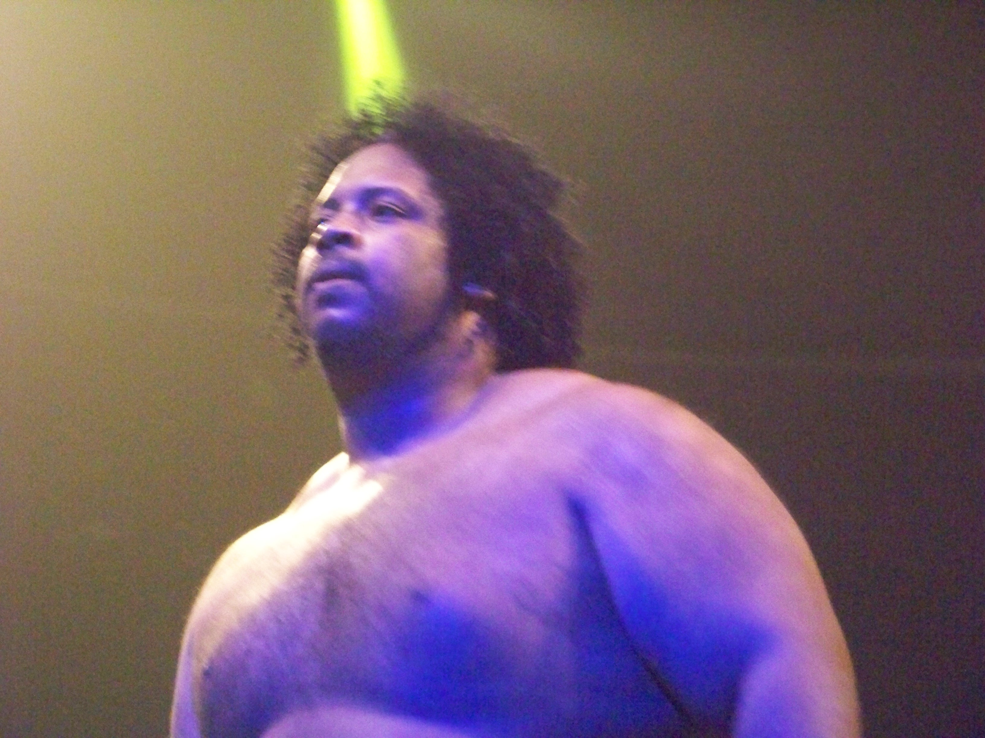 Bone Crusher, American rapper.